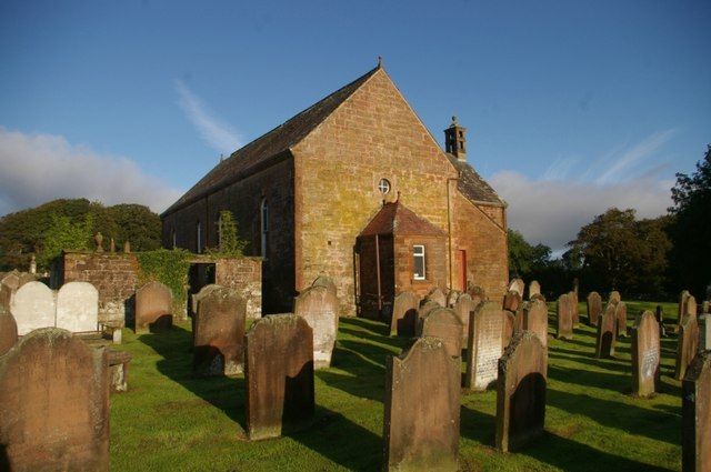 Caerlaverock Church of Scotland The parish church nestles between Byers Farm and a tributary of the Lochar Water, a little way north of the village of Bankend. It dates from 1781, but the piend-roofed porches were added by James Barbour in 1894 when he reroofed the body of the kirk.